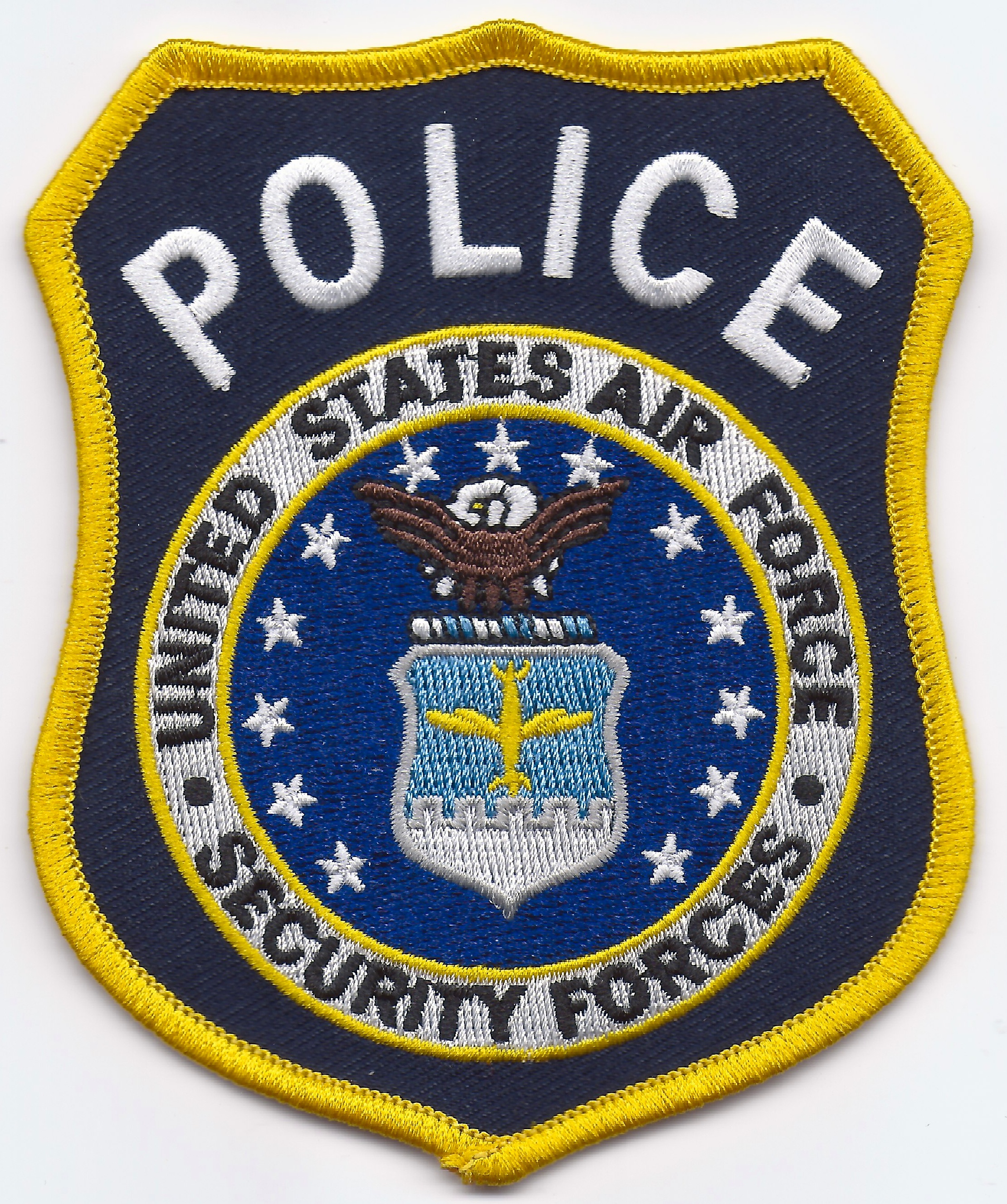 United States Air Force Security Forces Police Patch